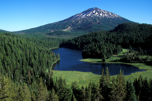 Todd Lake in the Deschutes National Forest is one of the most popular recreation sites on the east side of the Cascade Range in the U.S. state of Oregon. Mount Bachelor is seen here behind the lake.